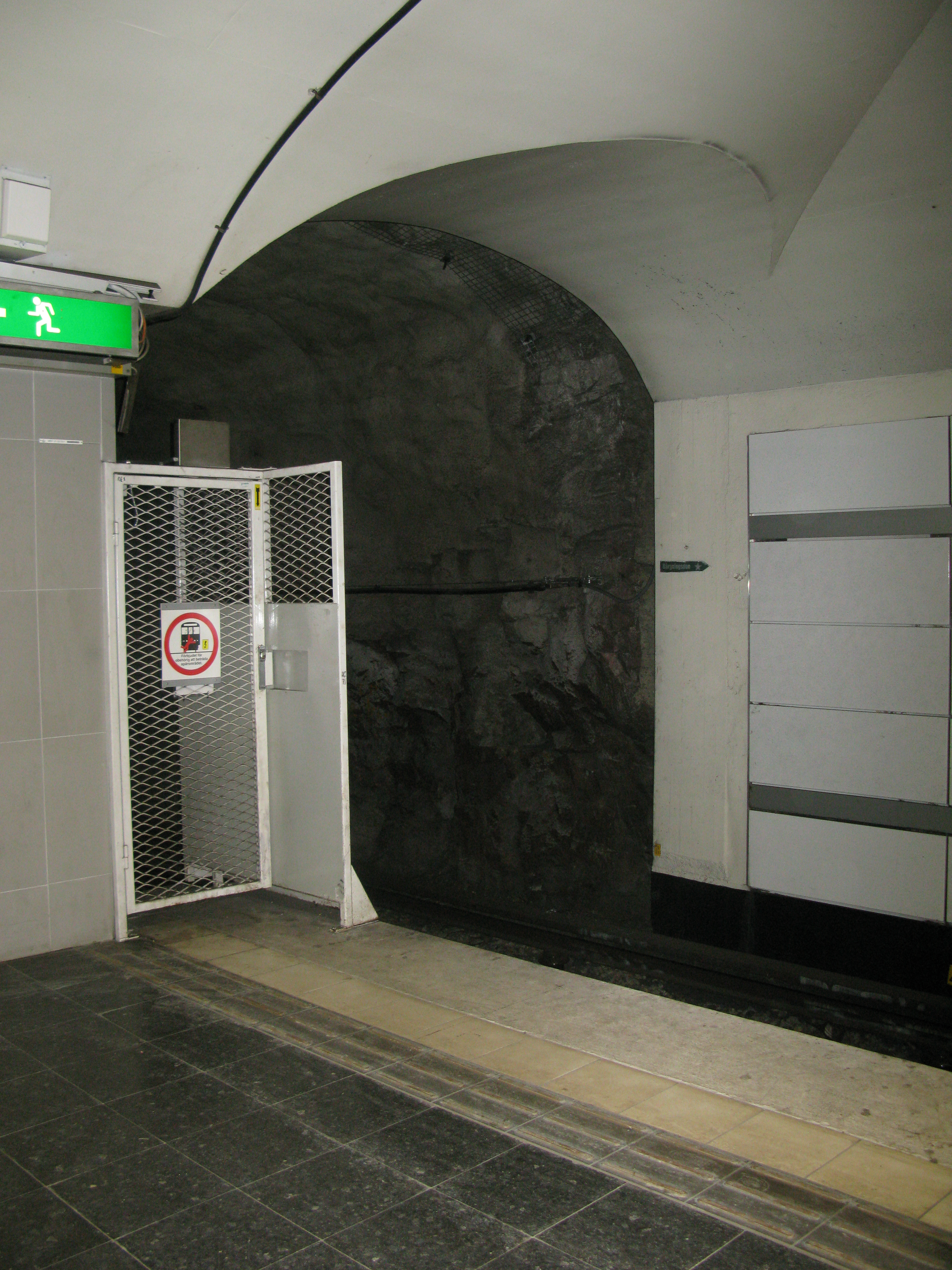 Subway tunnel in Stockholm subway, Sweden